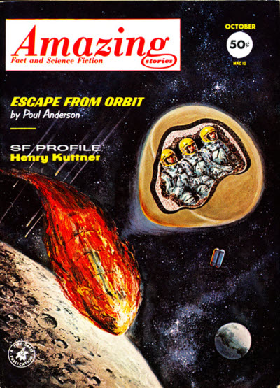 Cover of Amazing Stories, October 1962